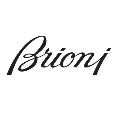 Logo of Brioni